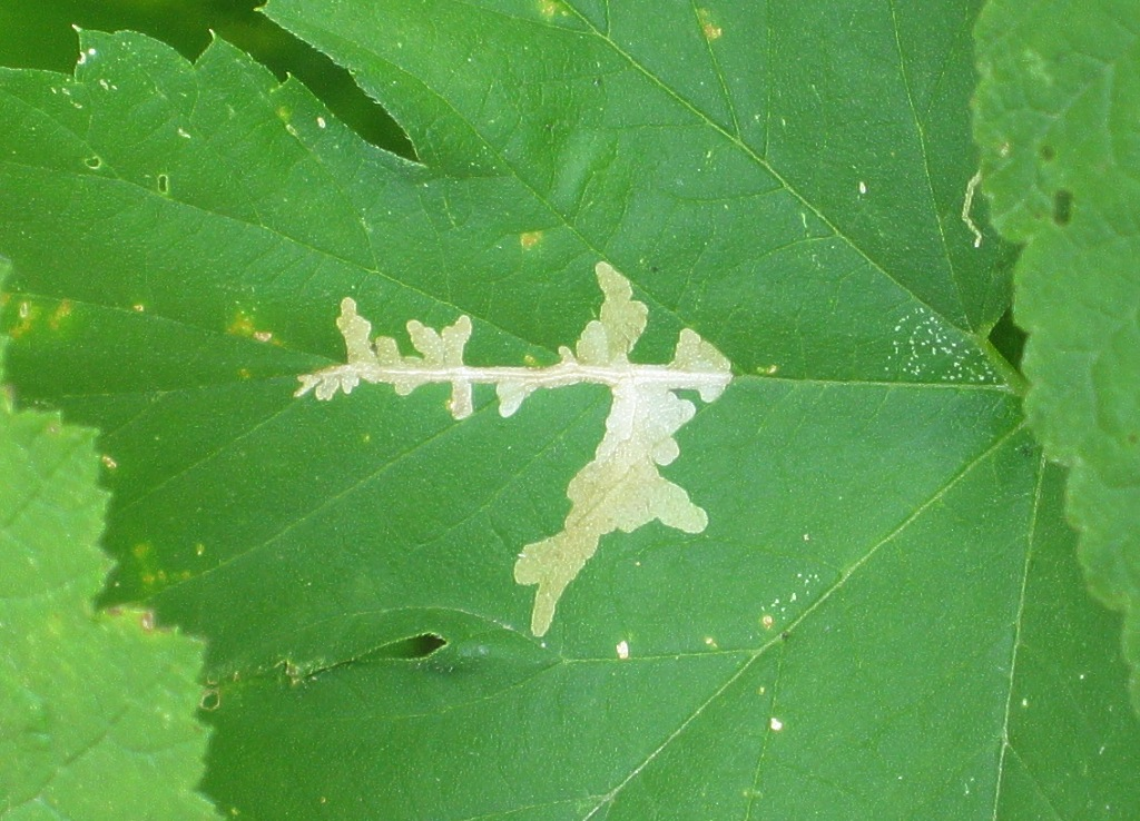 Mine of Cosmopterix zieglerella on Humulus lupulus